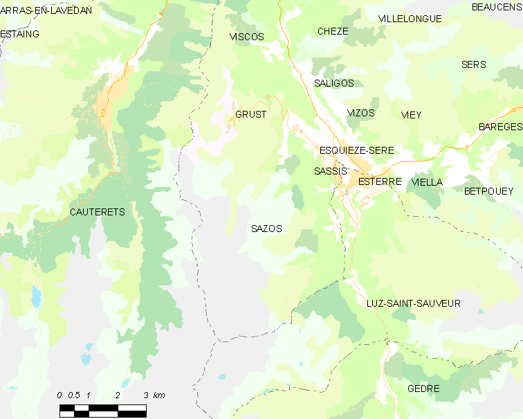 Map of French municipality